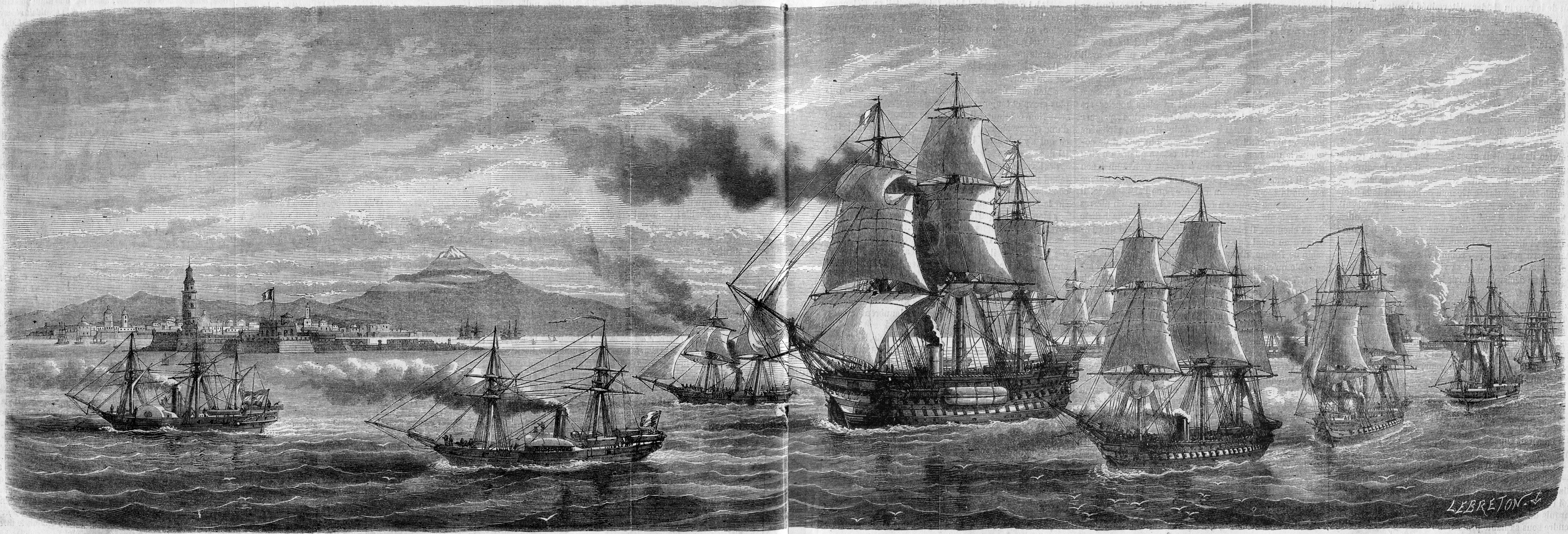 L'Illustration 1862 gravure: Expédition de Mexique, la flotte française sous le commandement du contre-amiral Jurien de la Gravière